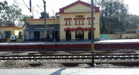 Jirat Railway Station